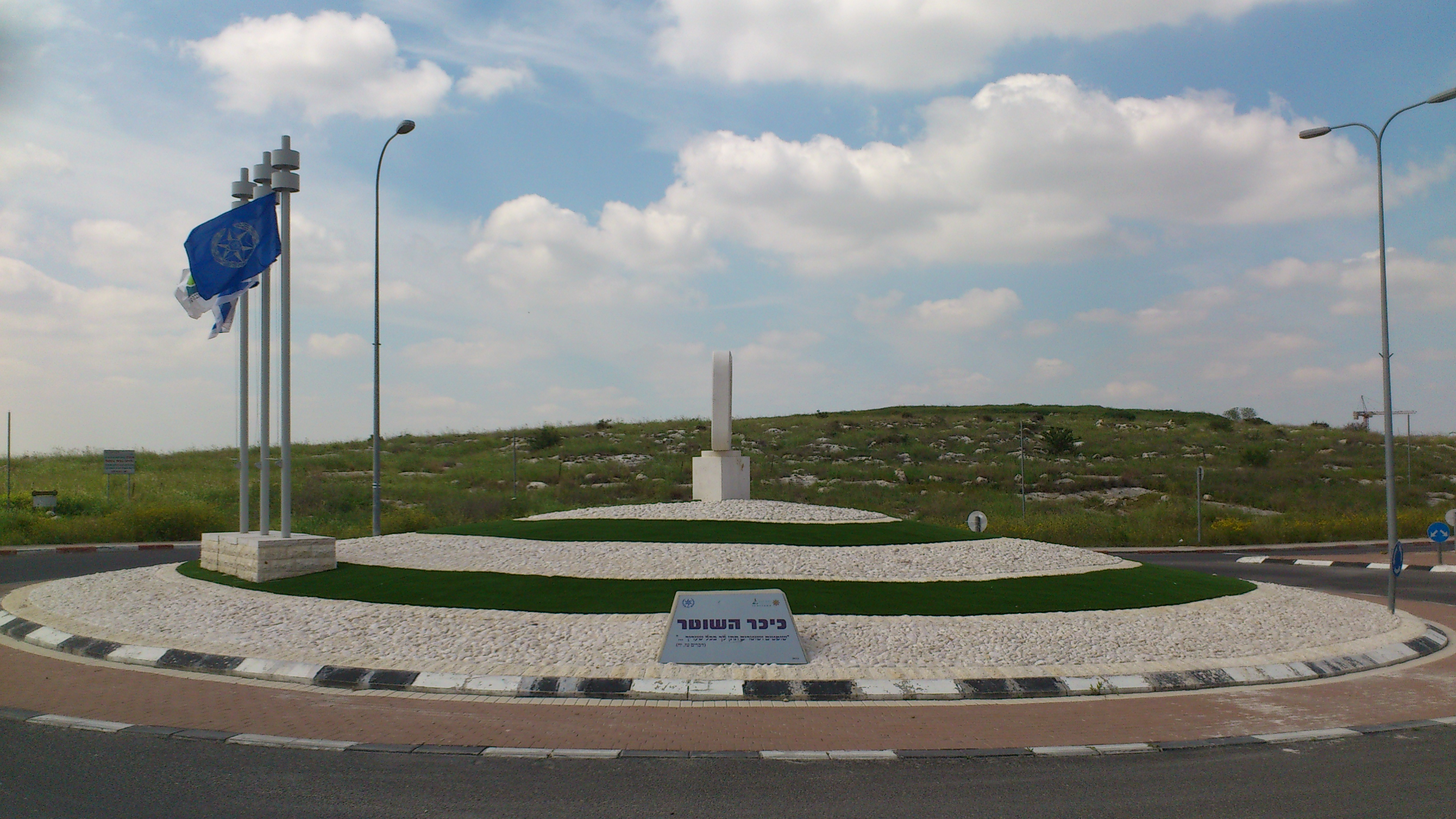 Modi'in-Maccabim-Re'ut